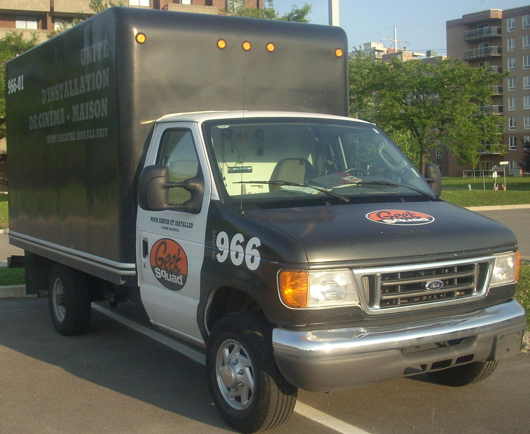 2006-2007 Ford E-Series Geek Squad Best Buy photographed in Montreal, Quebec, Canada.